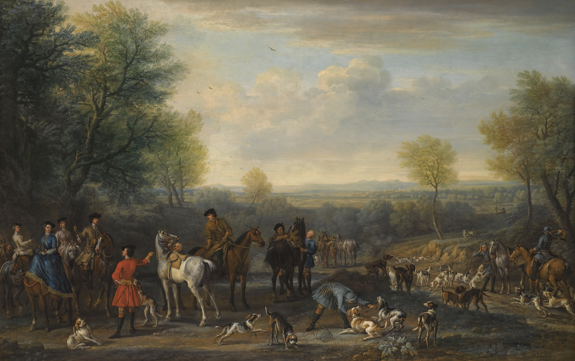 A Hunting Party, possibly depicting Charles Spencer, 3rd Duke of Marlborough (1706-1758) and his wife Elizabeth, Countess of Marlborough, 1761 by John Wootton